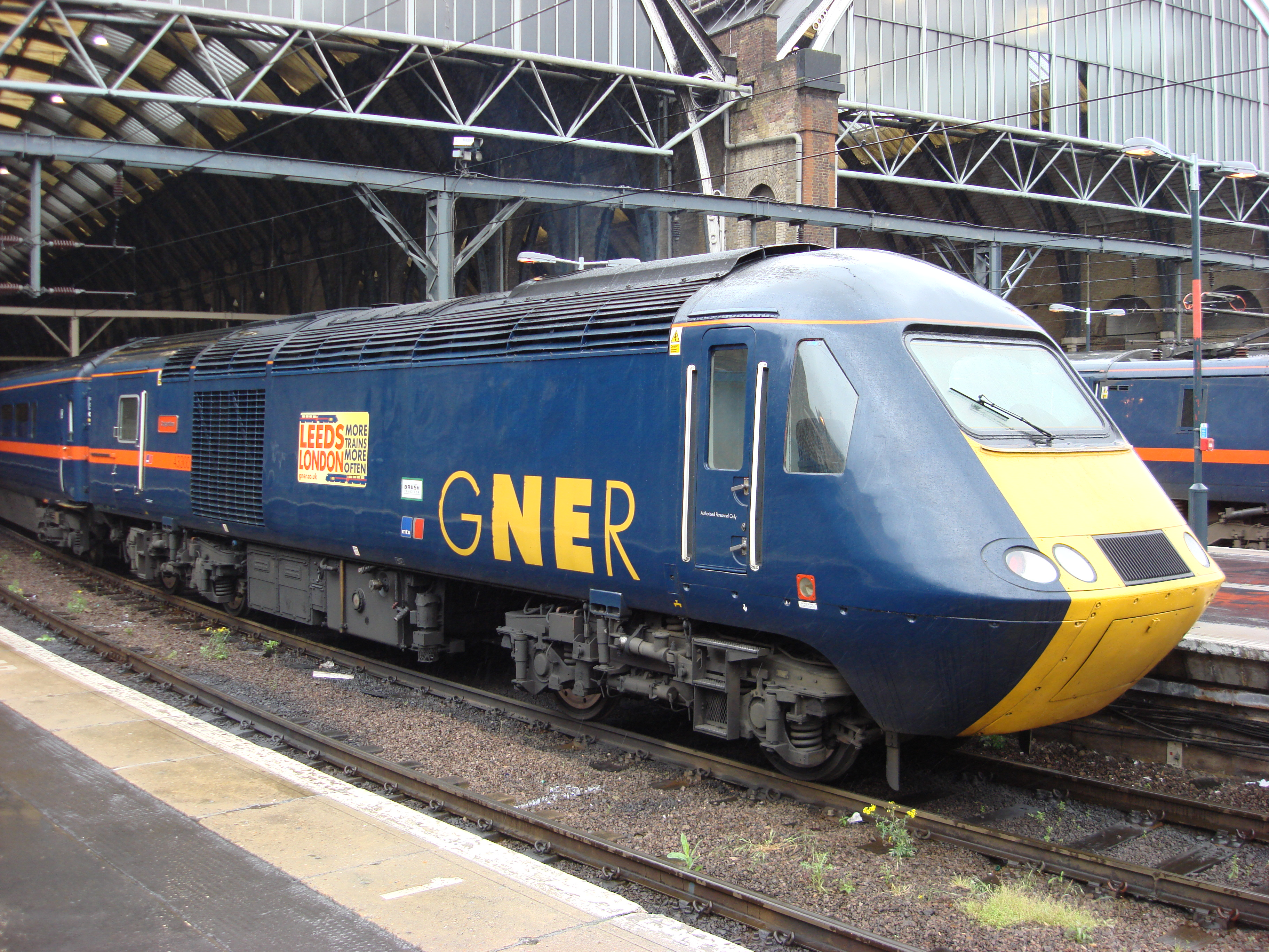 43300 at Kings Cross